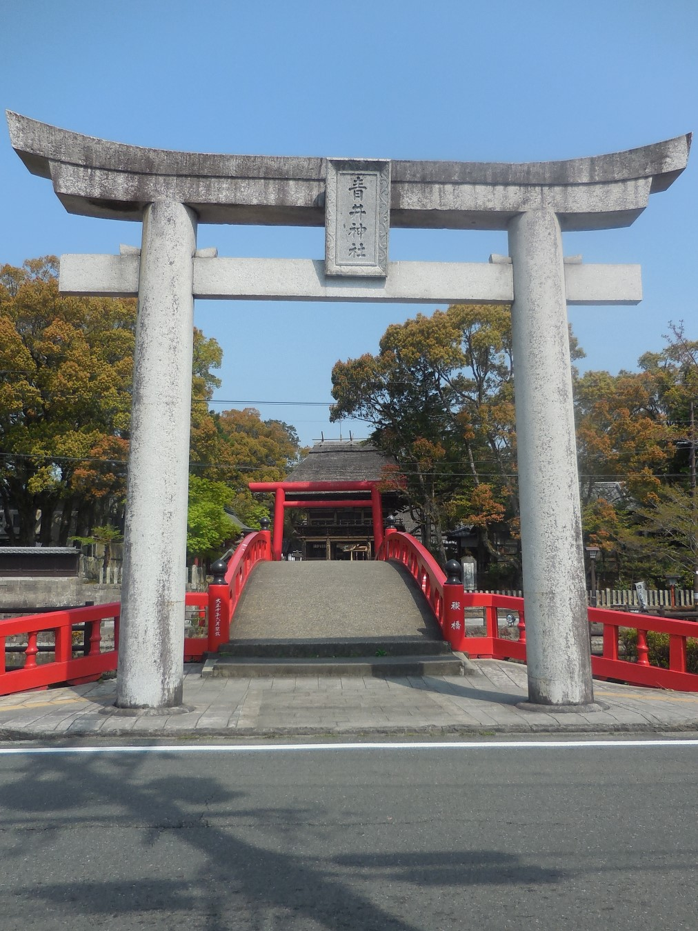 Aoi Aso Jinja Torii